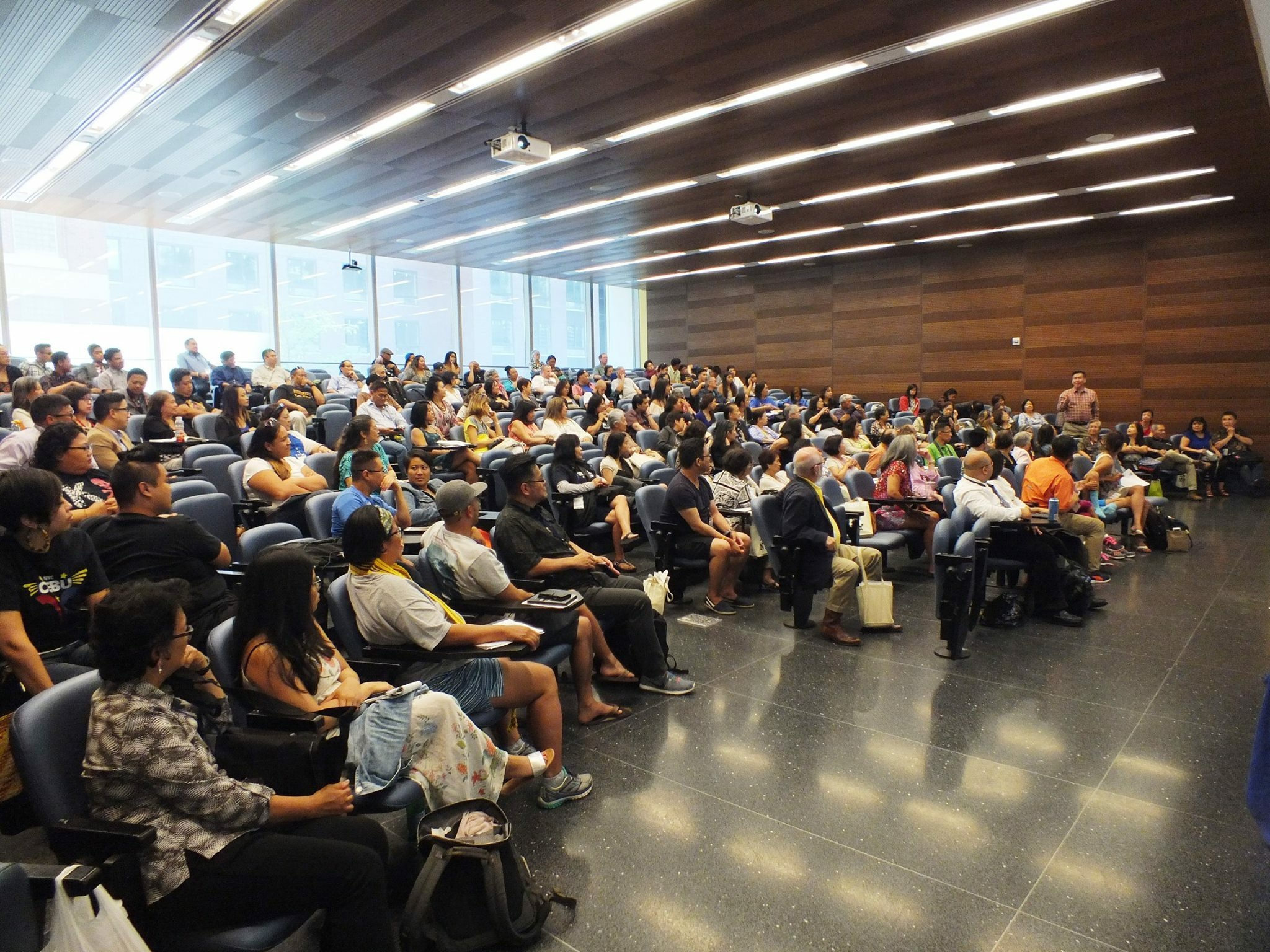 Crowd at Filipino American National Historical Society 2016 Conference in New York.